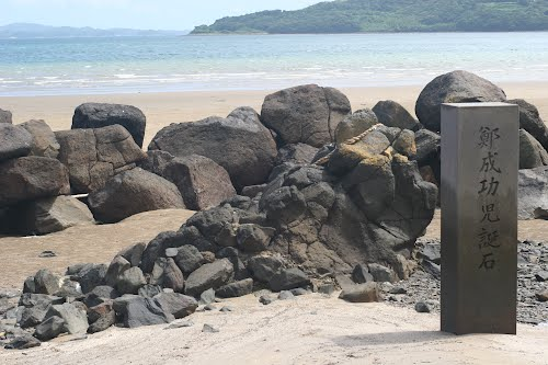 Birth Rock of Zheng Chenggong, in Hirado, Japan